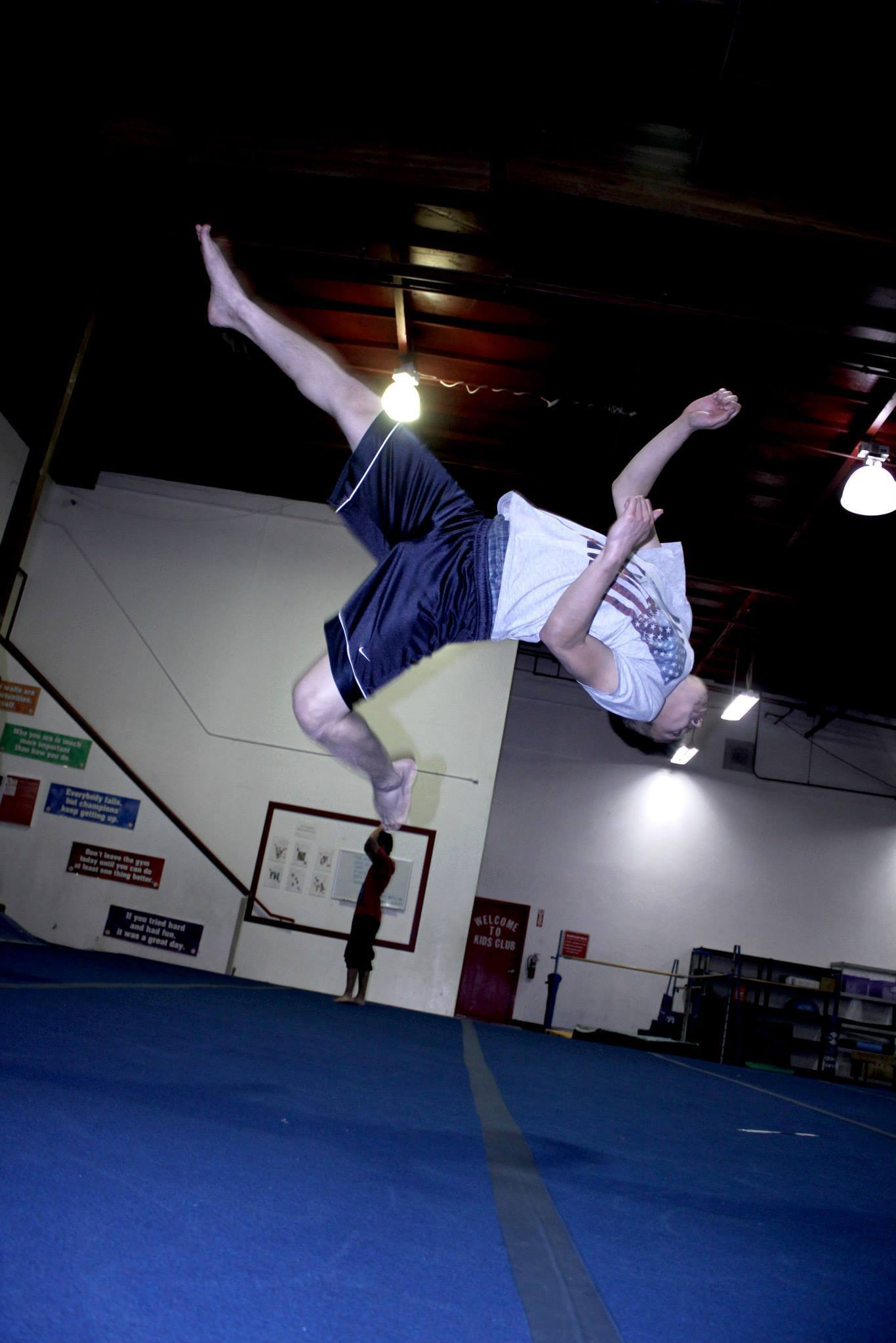 The julian still performing the flash kick